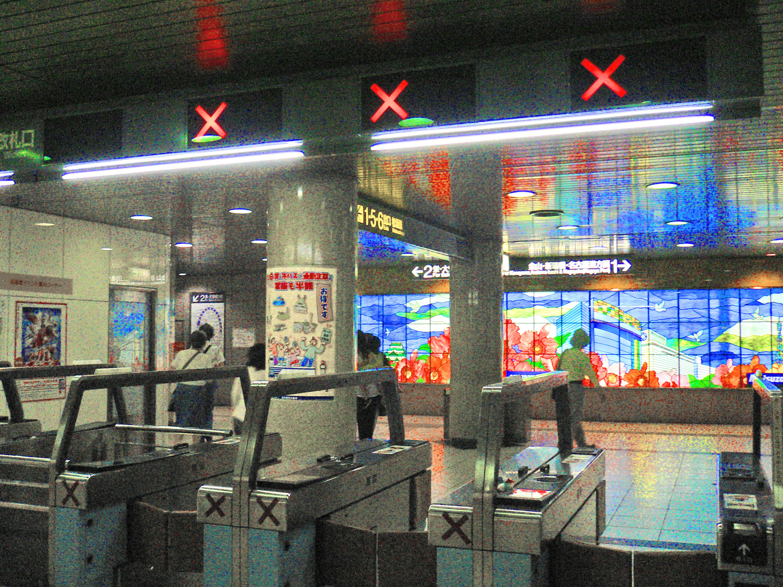 Yabacho Station (矢場町駅), Naka W, Nagoya C, Aichi P.